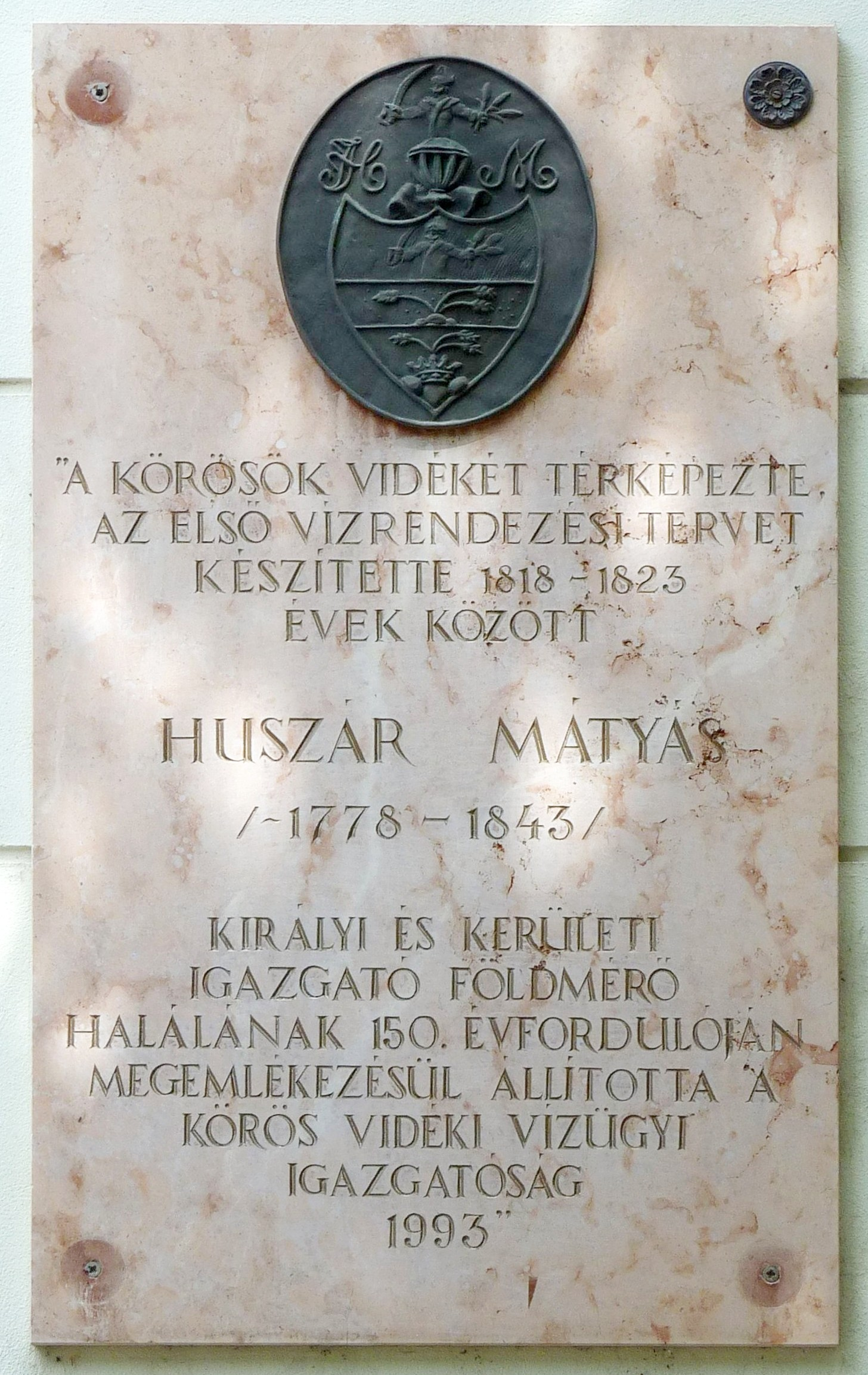 Plaque to Mátyás Huszár in Gyula (Városház street 26.)